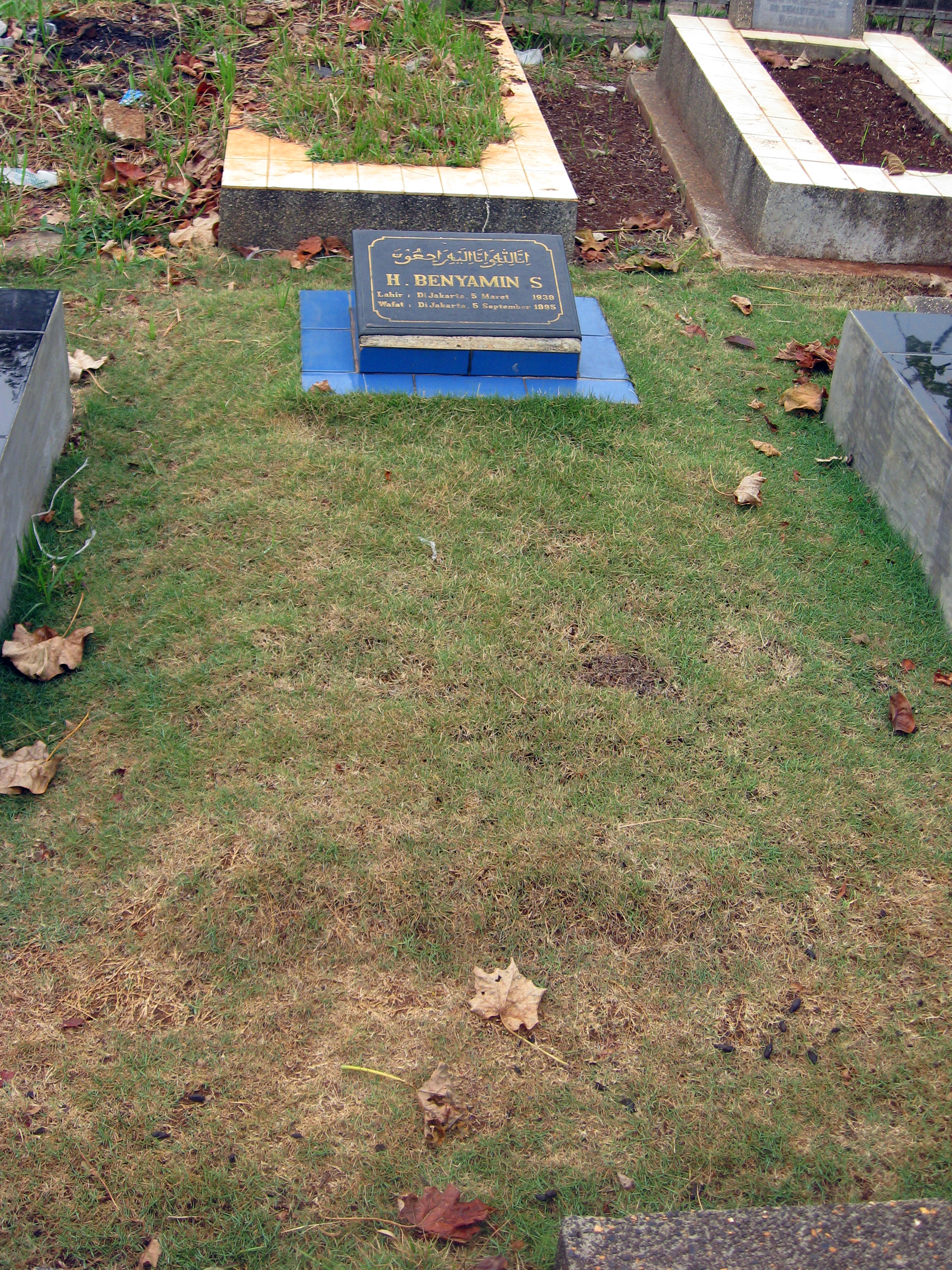 The grave of Indonesian singer and actor Benyamin Sueb in Karet Bivak Cemetery, Jakarta